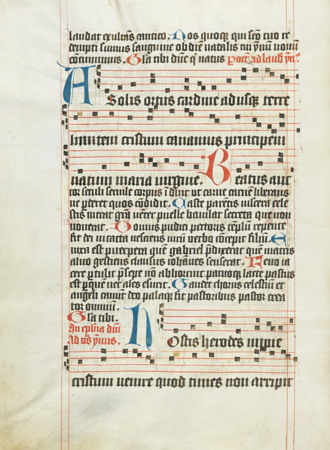 A solis ortus cardine in a late 15th century antiphonary from Kloster St. Katharina, St. Gallen, now in the library of the Dominican Abbey of St. Katharina in Wil